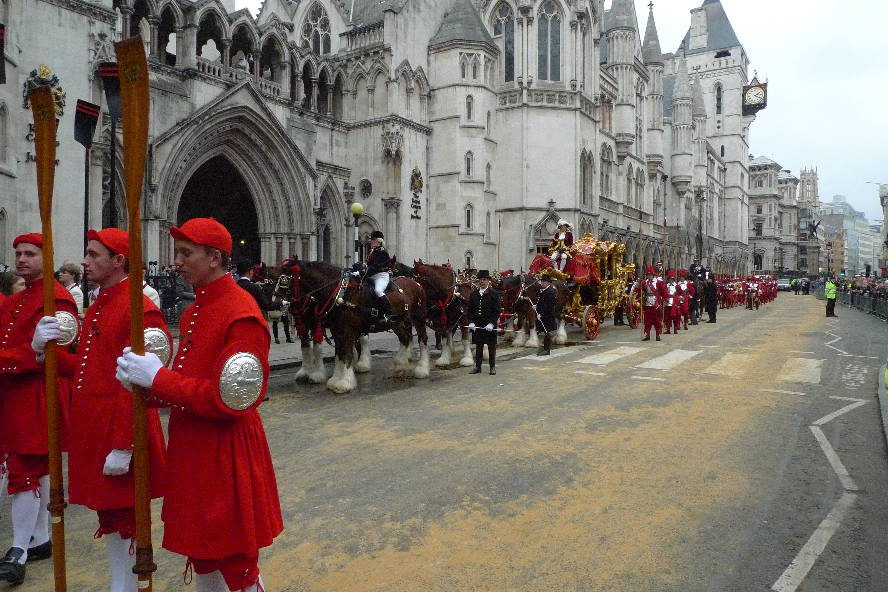 photo taken and uploaded by Rodolph de Salis, November 2011, of the Lord Mayor's show, the main part resting outside the RCJ during Mayor's visit inside, 13.20.Rodolph (talk) 00:13, 24 November 2011 (UTC)